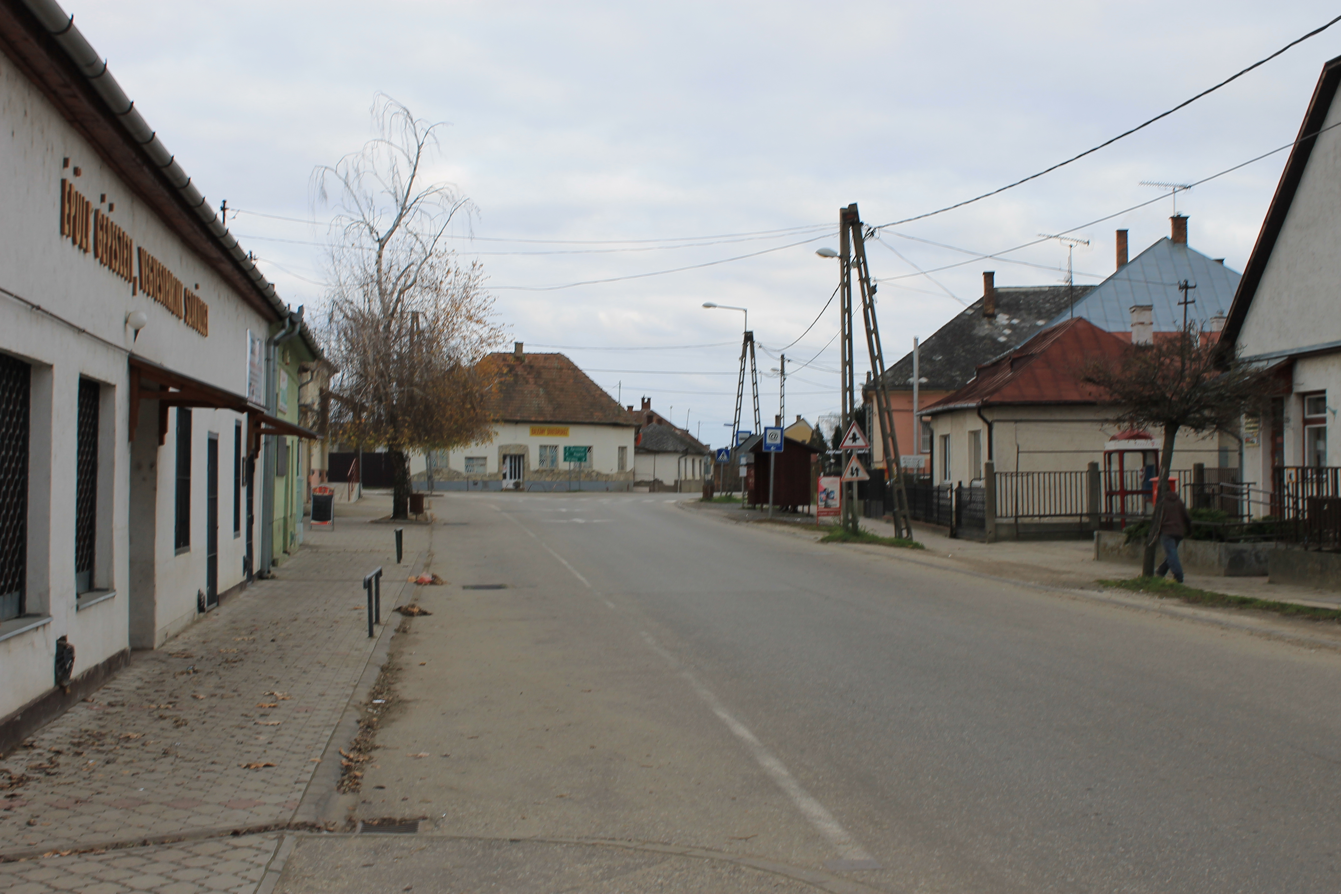 Ságvári street, Balkány, Hungary